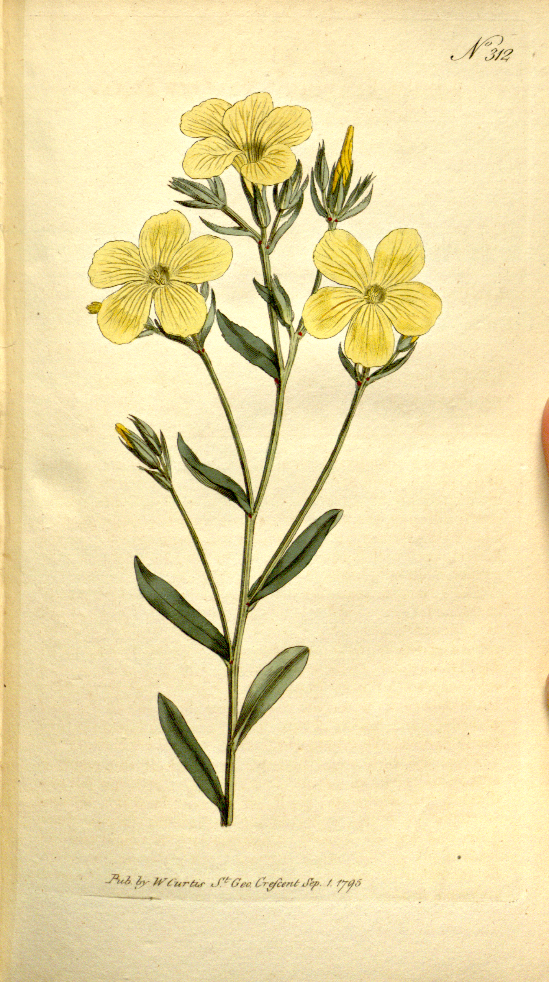 This is a plate from The Botanical Magazine, Volume 9.